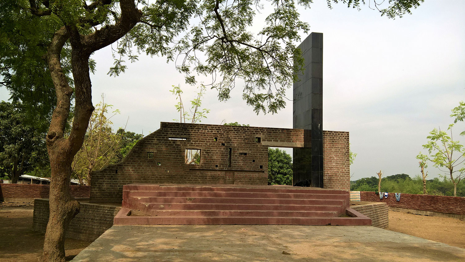 Monument for the martyrs in 1971 war. Here is the mass grave of war heroes from rohanpur region.